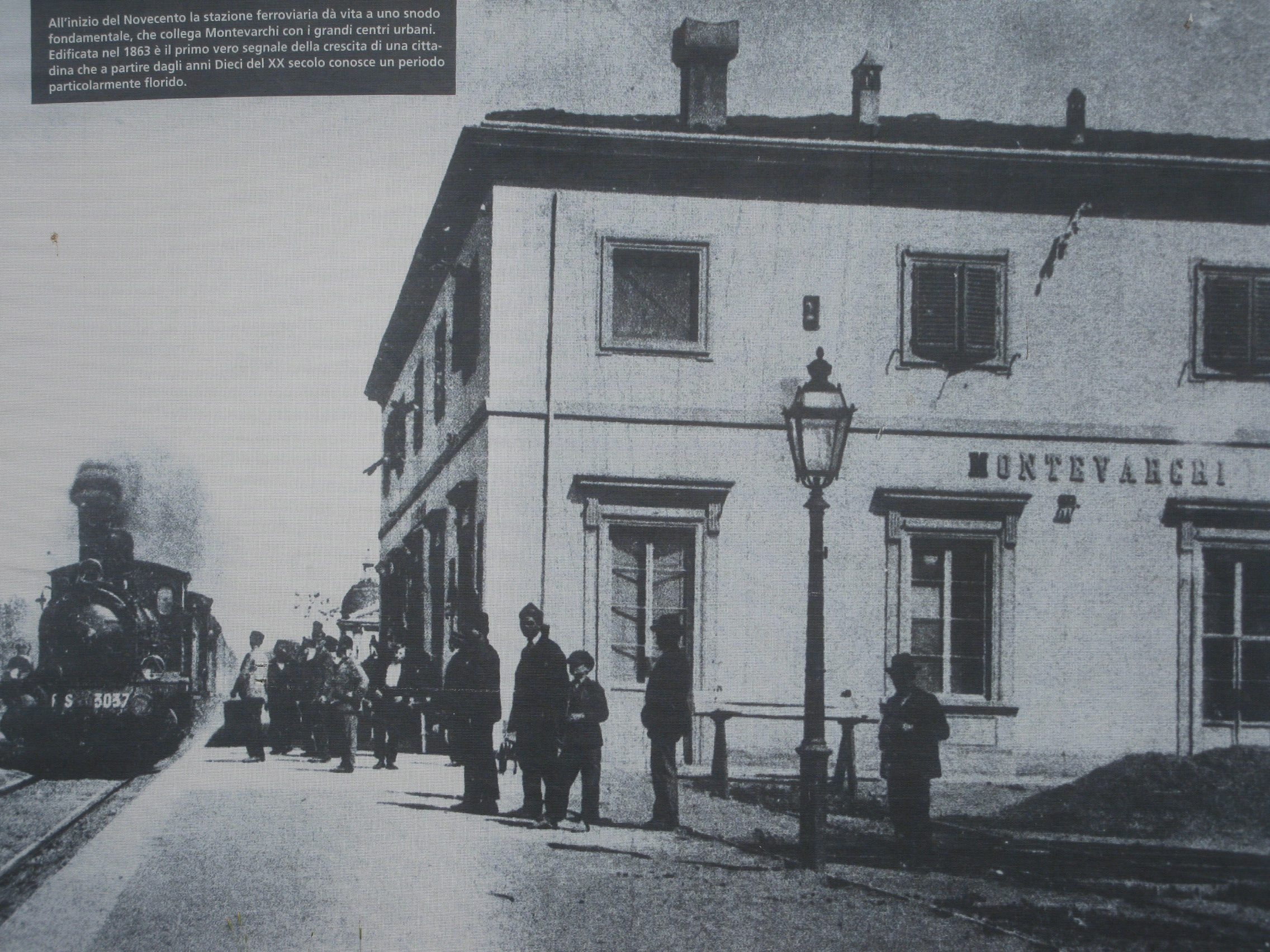 View of Montevarchi-Terranuova railway station in 1863, a few months later after the inauguration of the line.